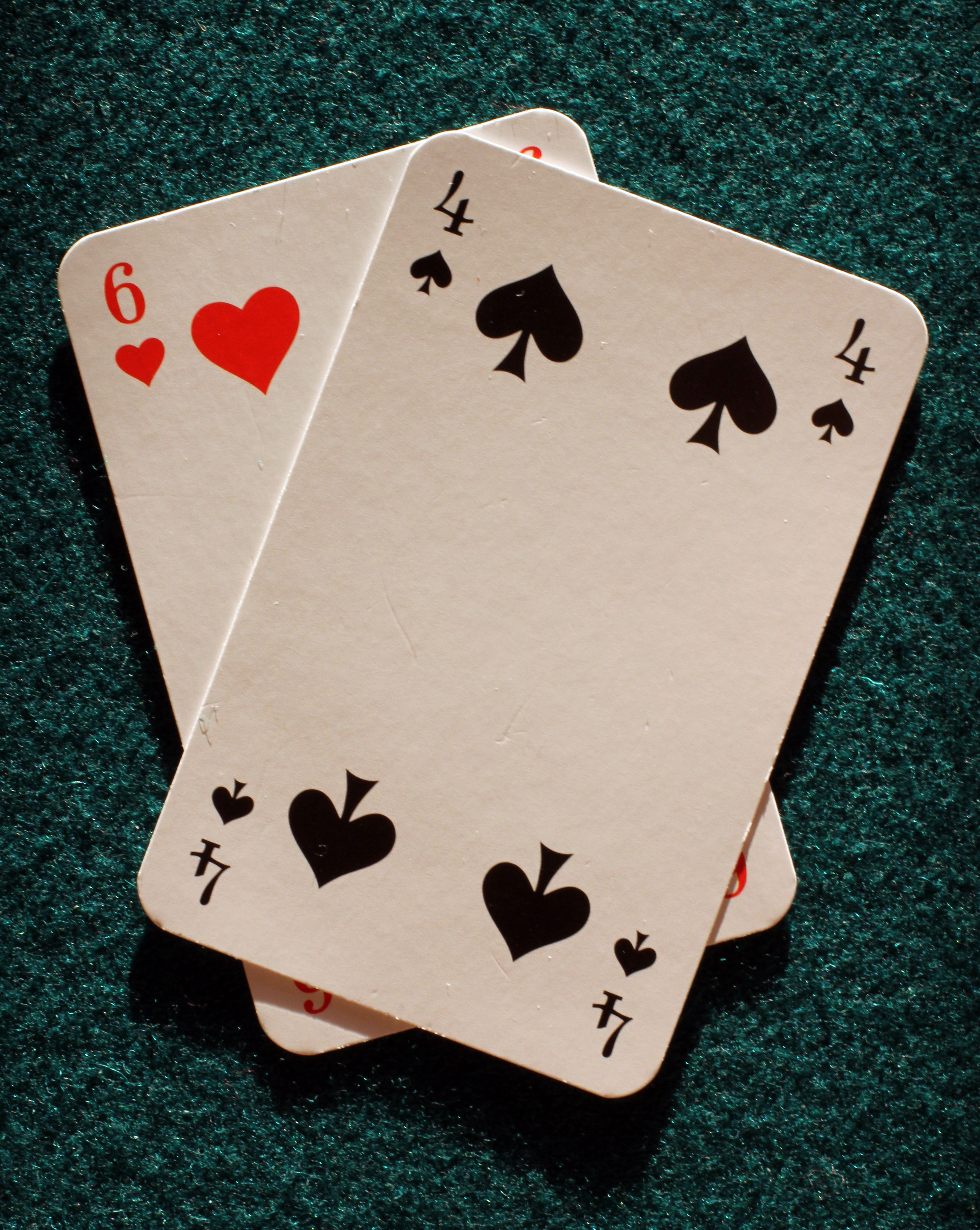 The Six of Hearts and Four of Clubs from a French-suited pack. Trick combination typical of e.g. Bettelmann, Tod und Leben, etc.